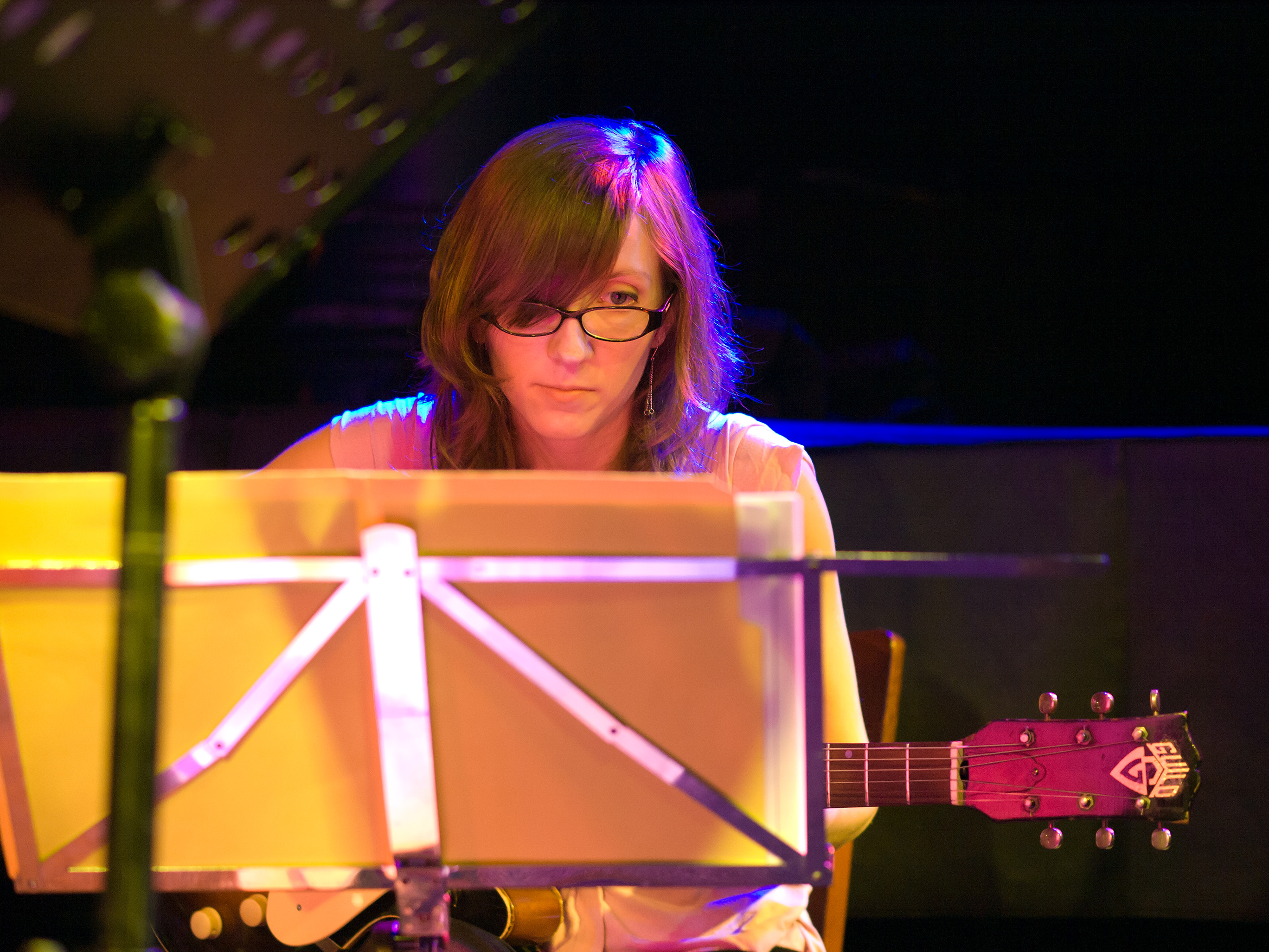 Mary Halvorson, Jazz guitarist; Picture taken in Jazz Club Unterfahrt, Munich/Bavaria